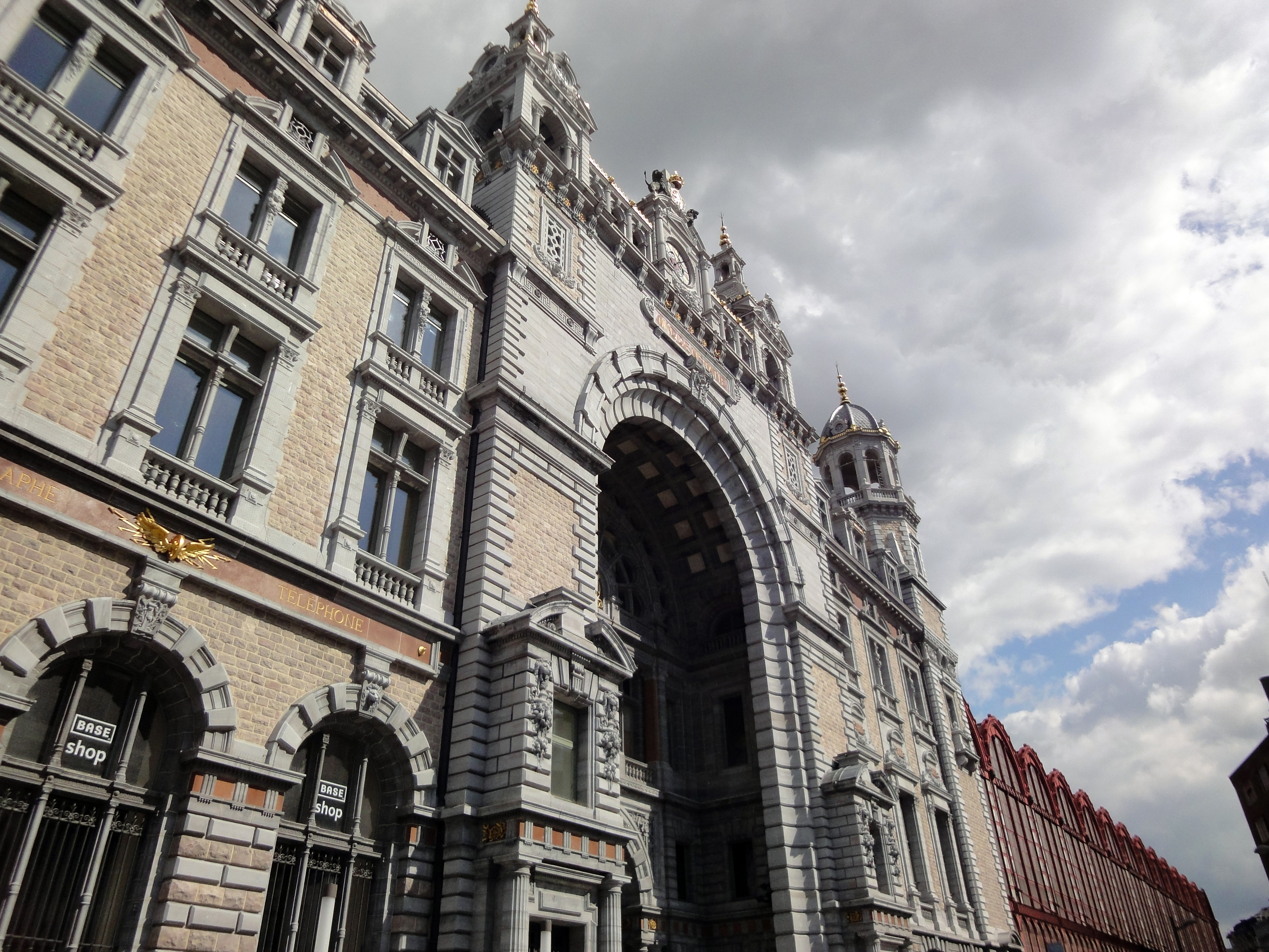 Front of the Anwerpen Centraal Station.